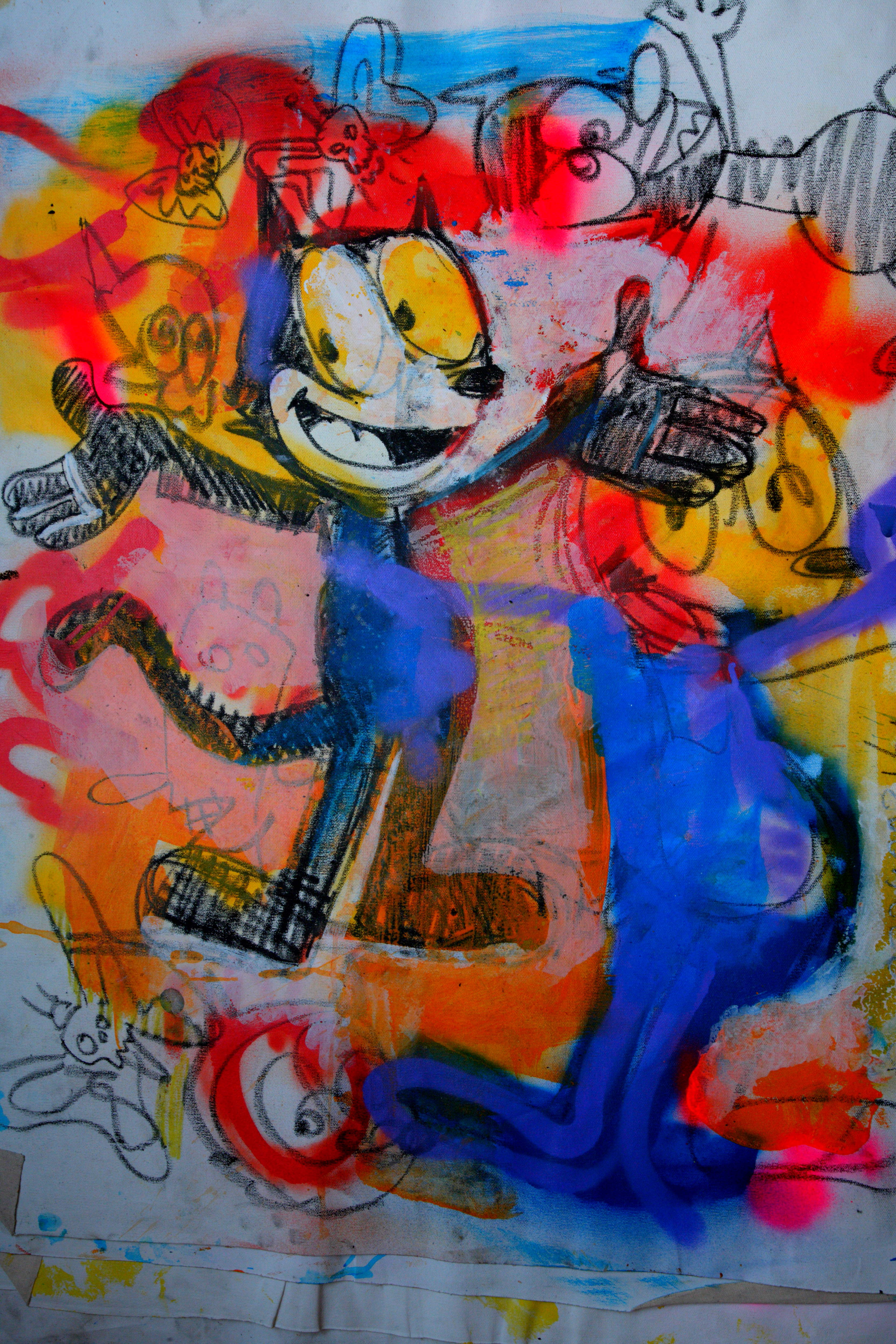 Painting of Felix the Cat. Work by Dutch artist Peter Klashorst.